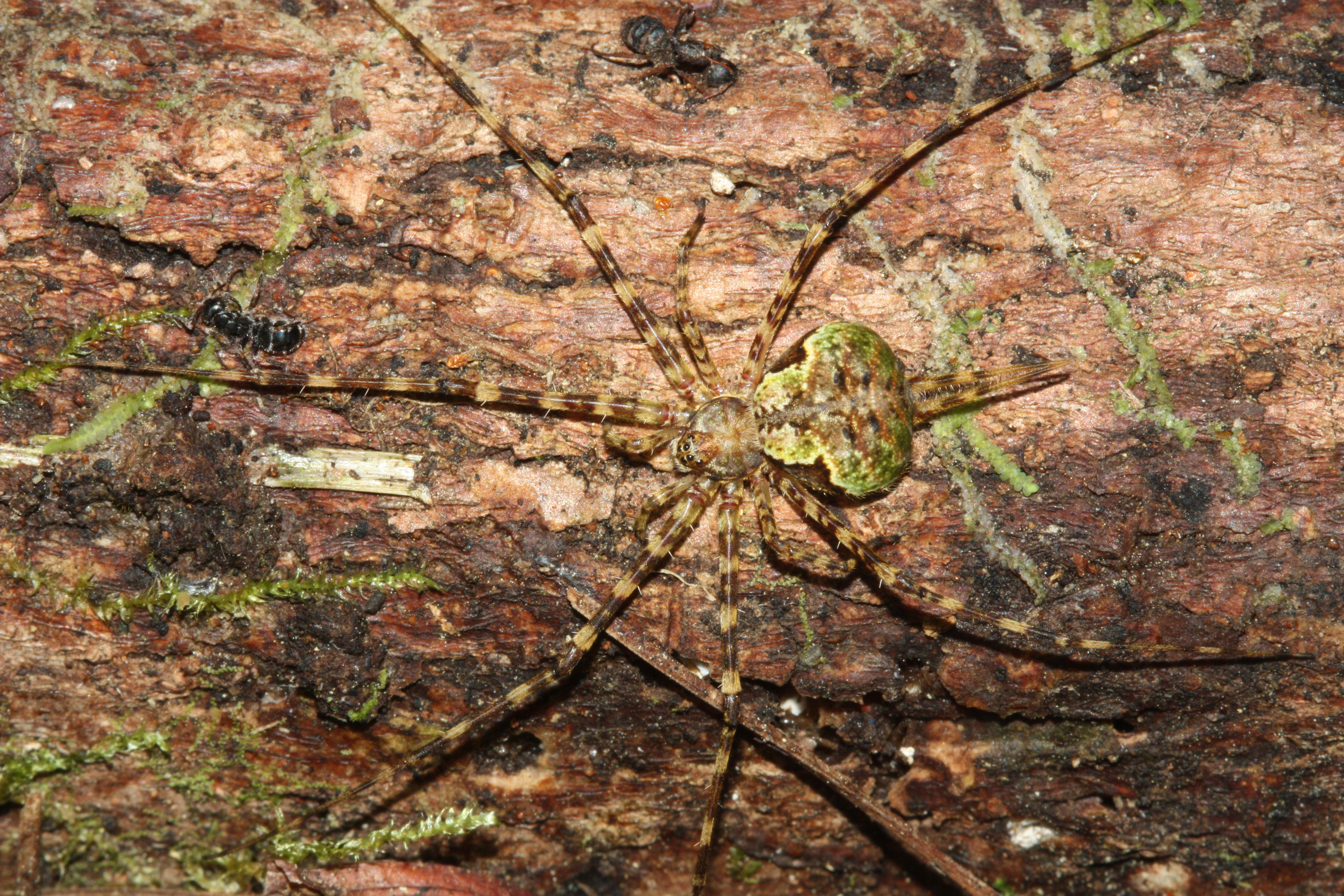 Honduran spider from family Hersiliidae genus Neotama. Photographed by Stuart J. Longhorn in Parque Nacional Cusuco, Dept. Cortés, Honduras. 23rd June 2012.